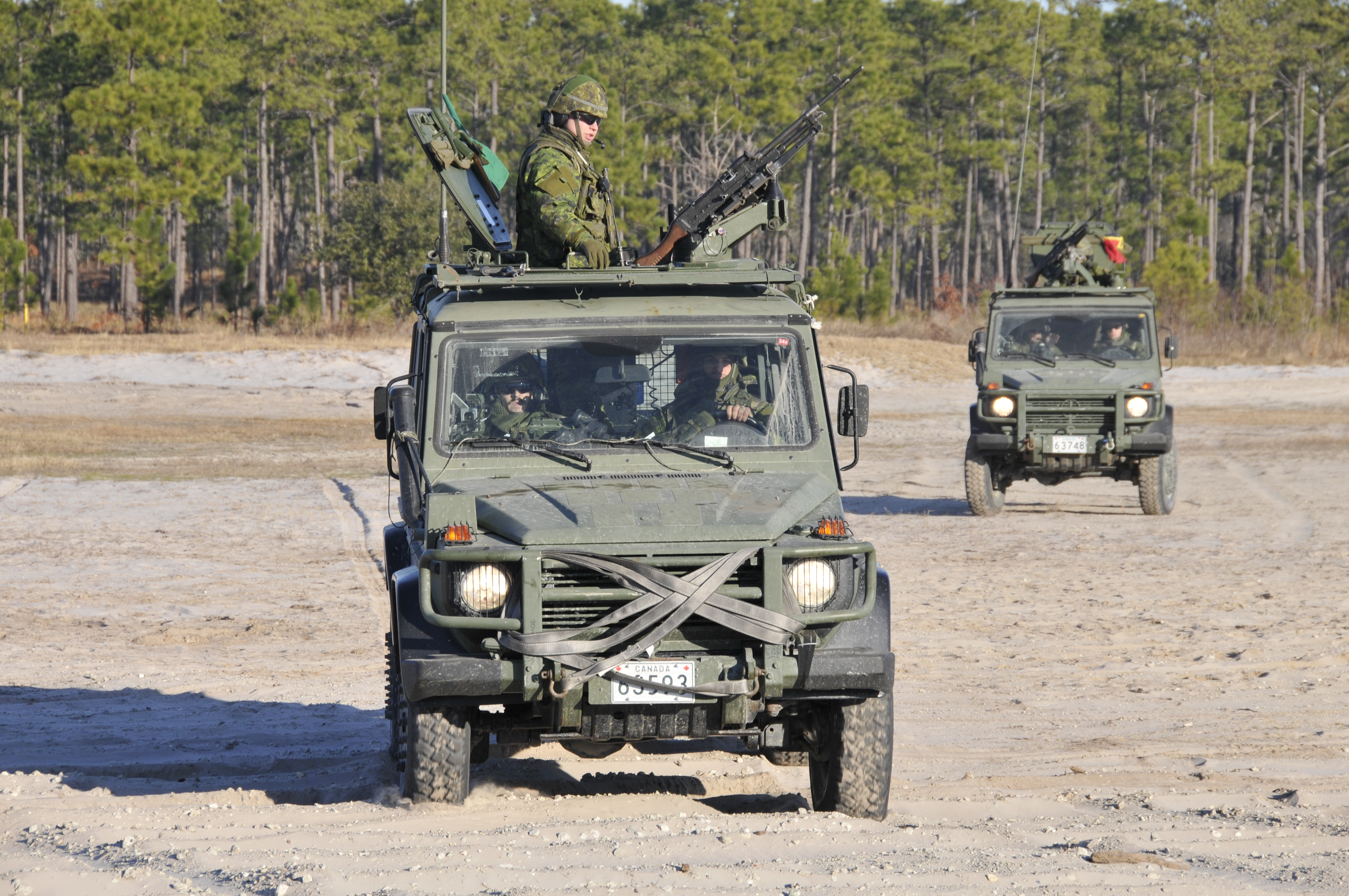 Reconnaissance Patrol, Le Régiment de Hull, Camp Shelby, NC, January 2012. A patrol of 2 Mercedes G-Wagons during a tactical column move to the departure line furing reconnaissance operations.